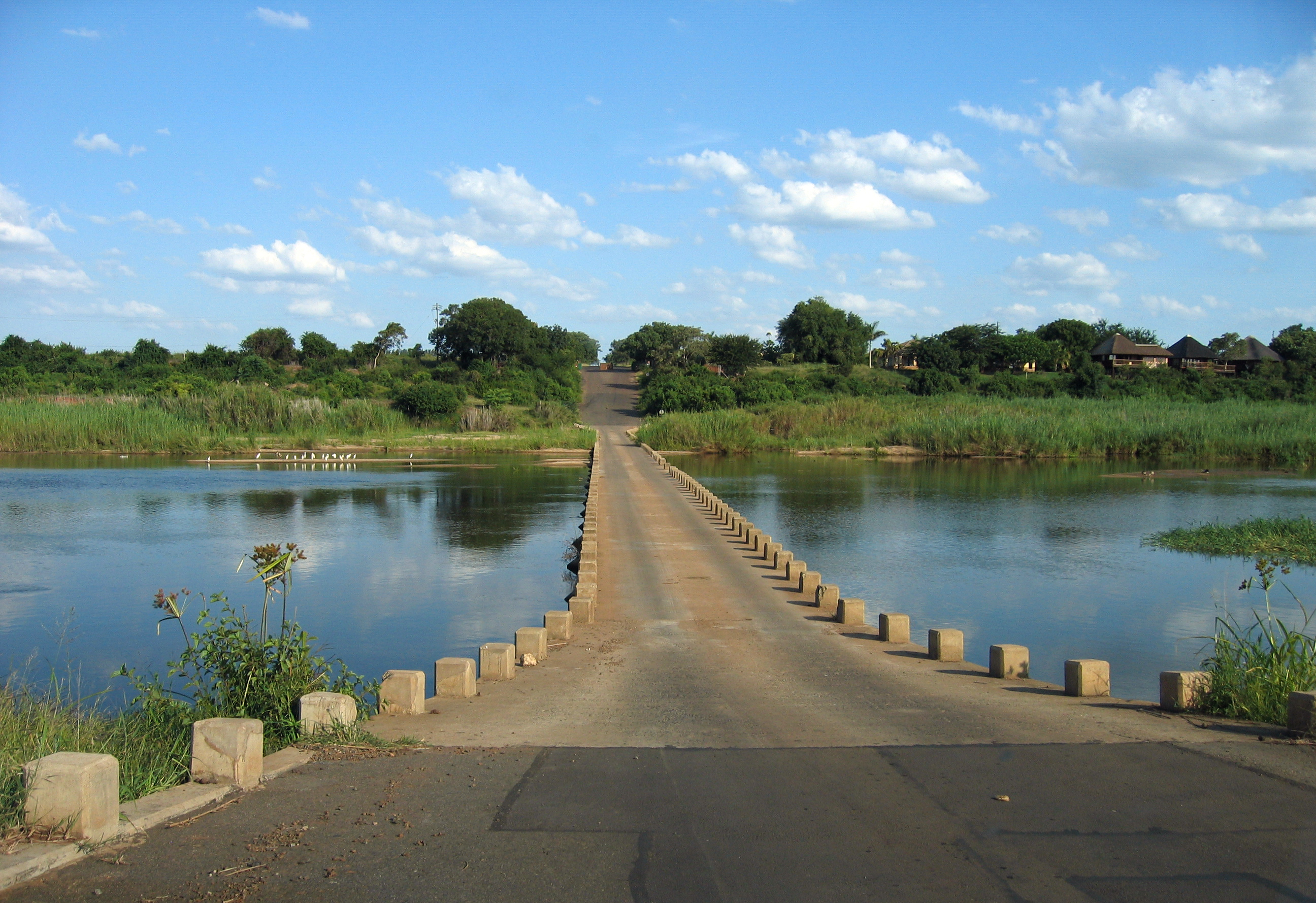 Crocodile Bridge (near the South gate Kruger National Park)